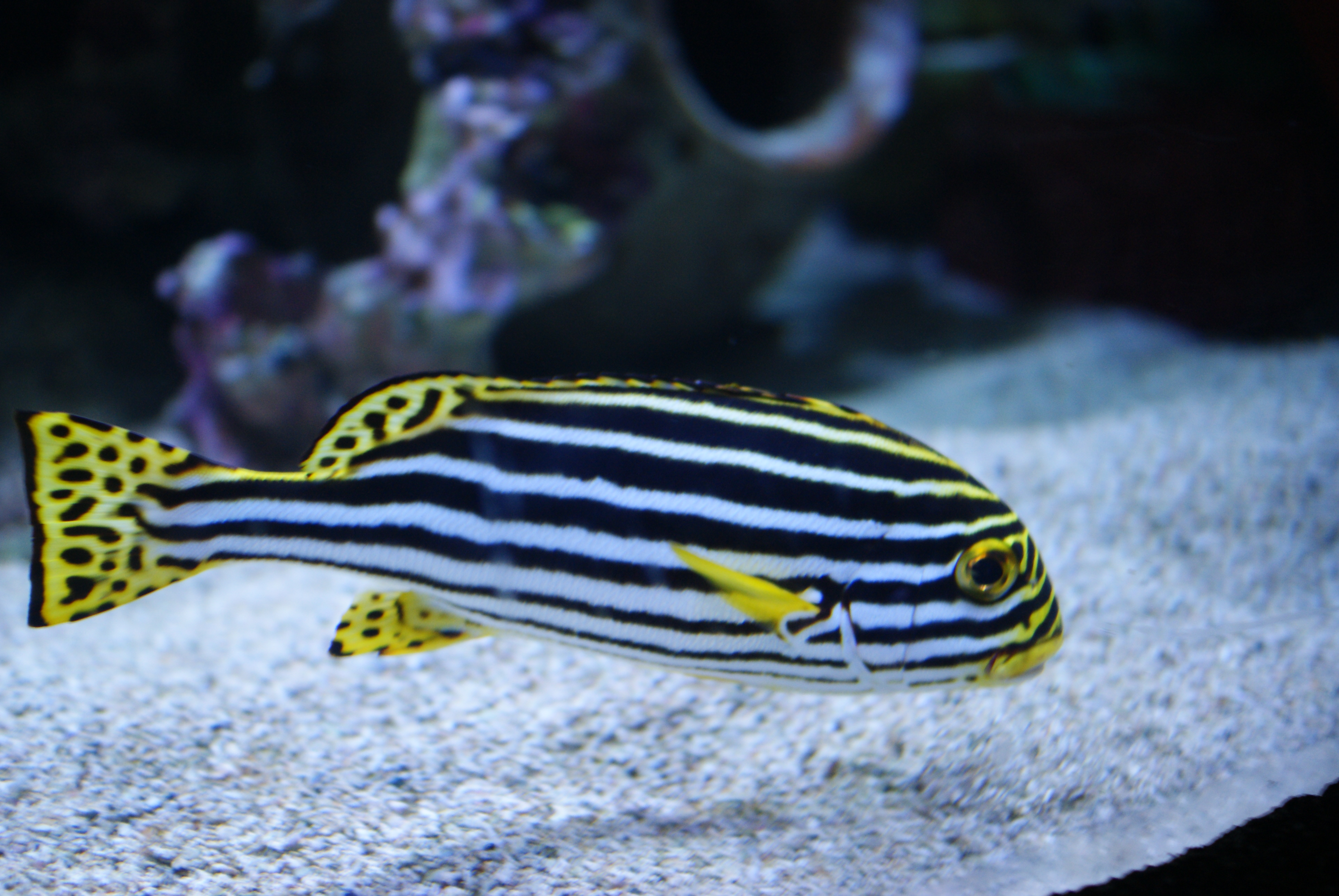 Plectorhinchus vittatus in Tropicarium-Oceanarium Budapest